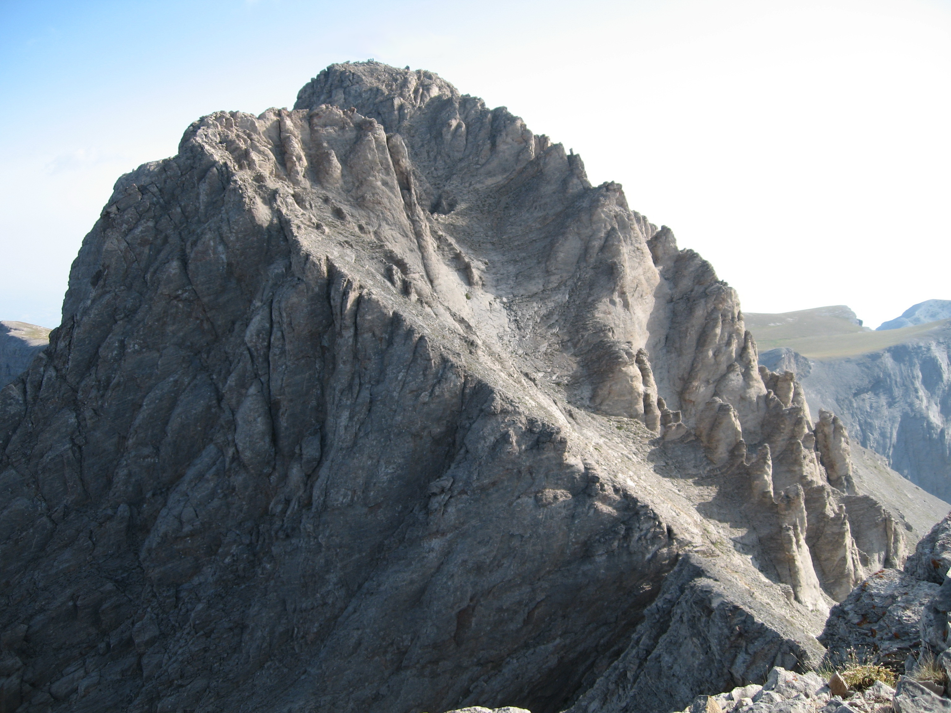 Olympus mountain. View of Mytikas summit from Skala summit.